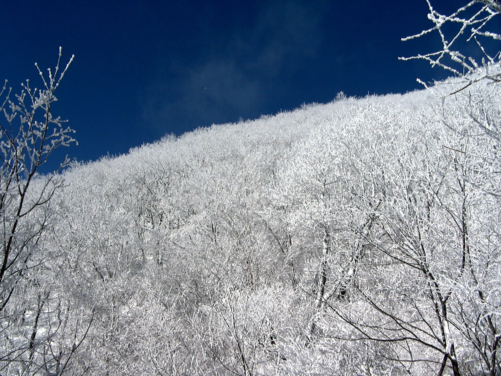 소백산 눈꽃 snowed flower of sobaeksan